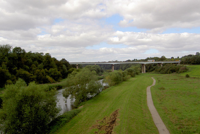 Doncaster bypass crossing the River Don.